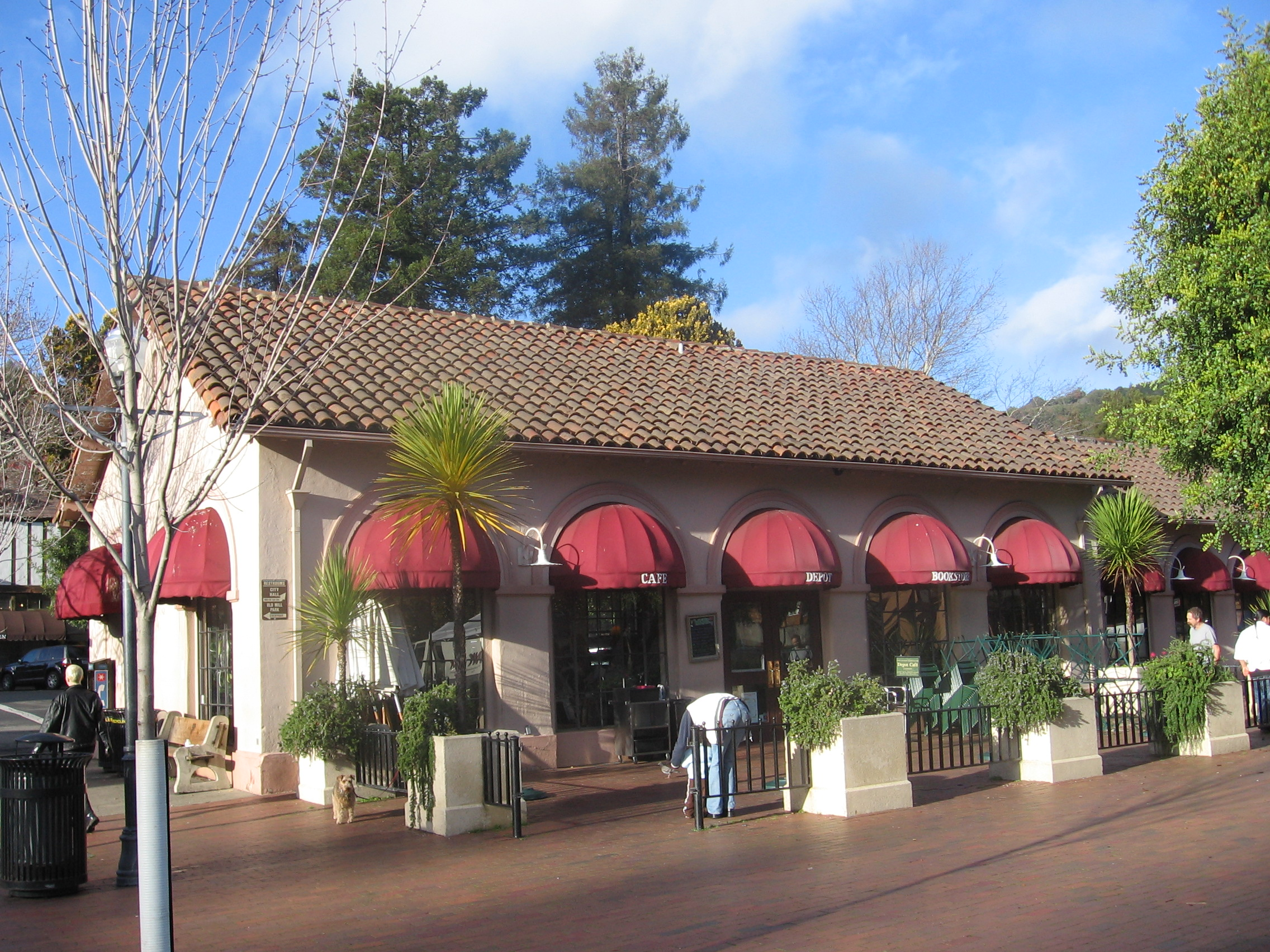 Old Railroad Depot, now a bookstore/cafe in Mill Valley, California Taken by me December 2007